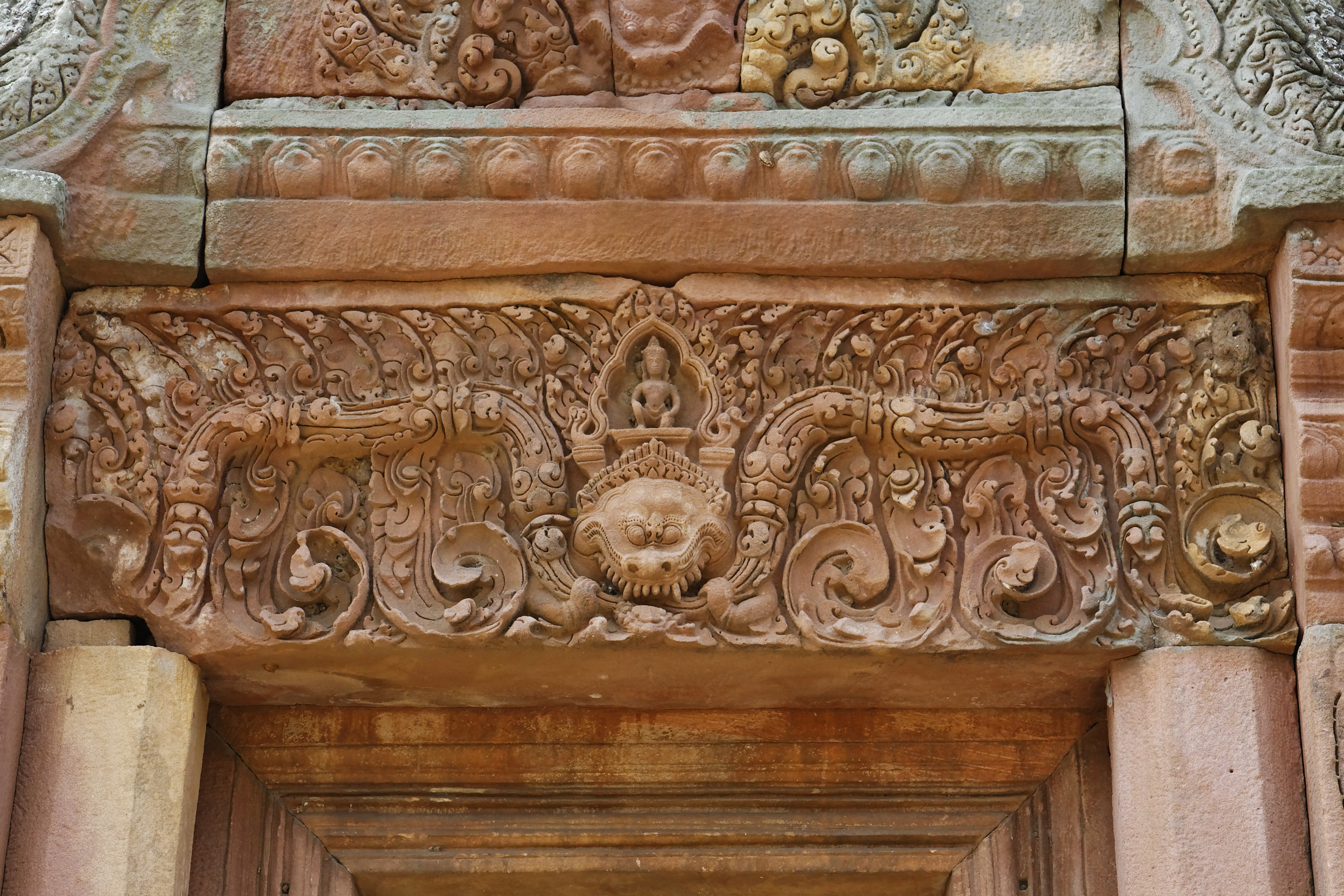 Prasat Muang Tam, Thailand